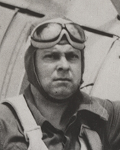 Frank C. Kniffin, congressman from Ohio.